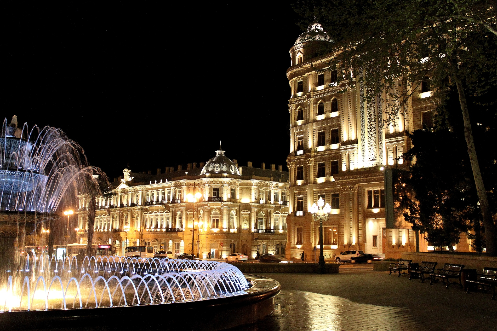 Baku night.